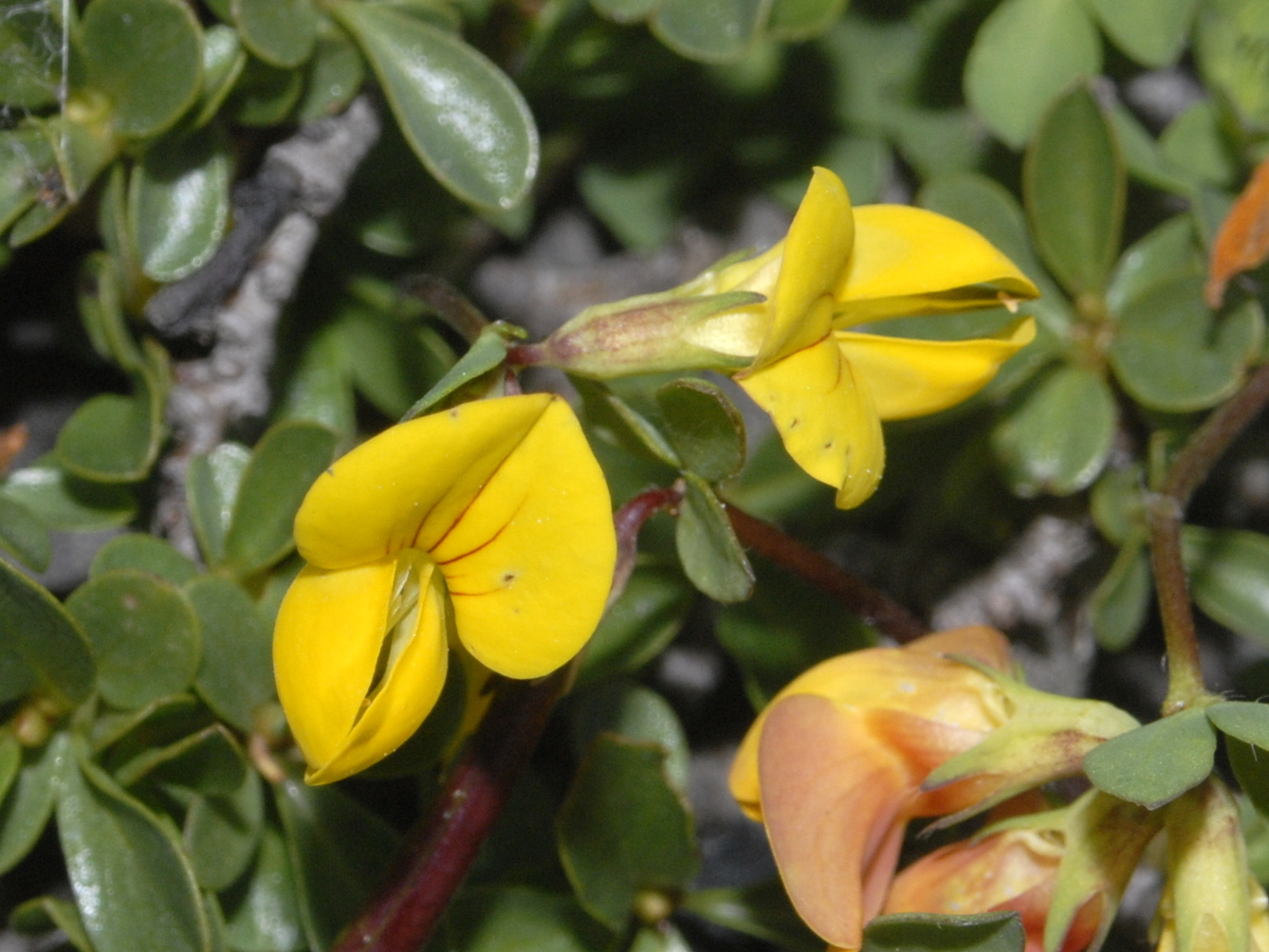 Lotus alpinus at the Giardino Botanico Alpino Chanousia